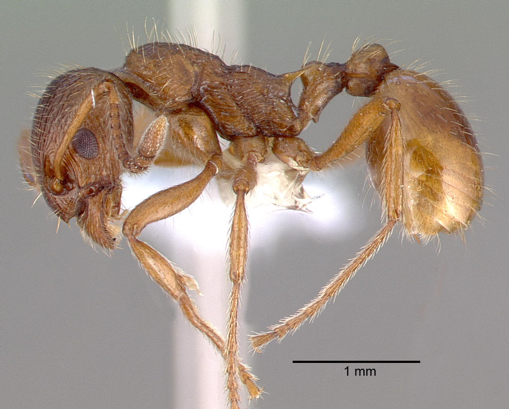 Profile view of ant Myrmica rubra specimen casent0010684.